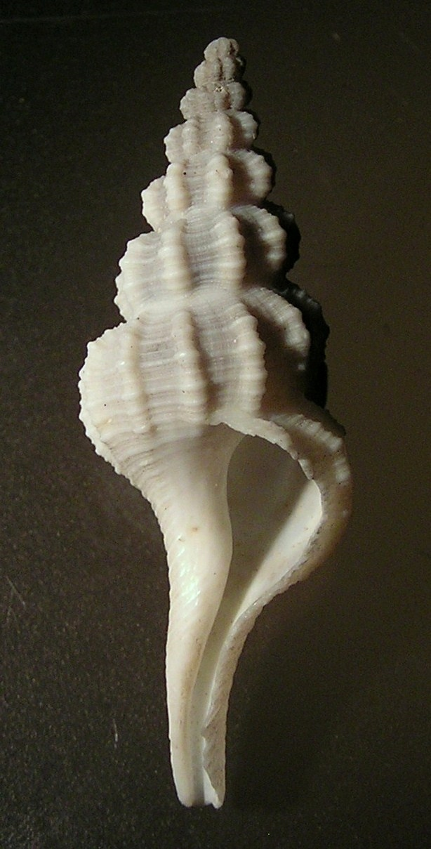 Fusinus inglorius Hadorn & Fraussen, 2006 , a spindle snail from the family Fasciolariidae; South China Sea